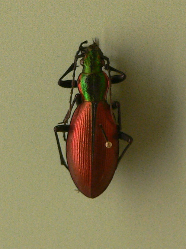 Ceroglossus darwini. Pictures taken by myself at the Audubon Insectarium